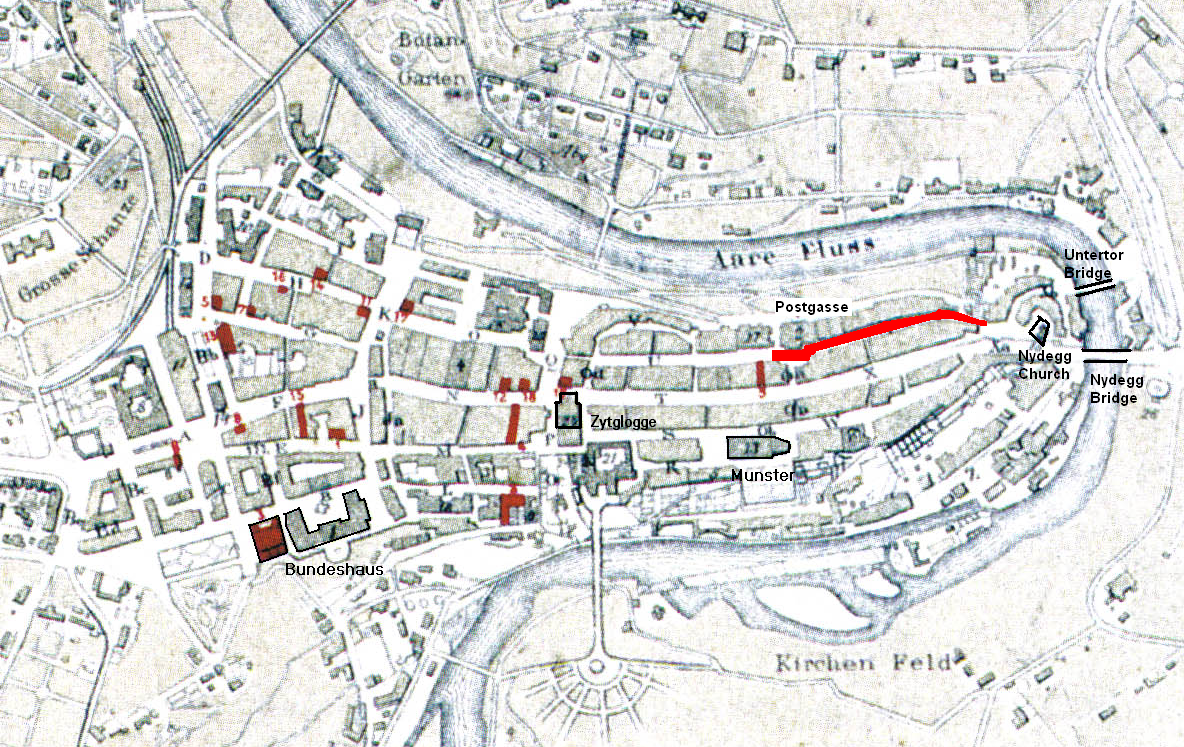 City plan of Bern, 1882. Scanned from BERN: Eine Stadt vor 100 Jahren, Bilder und Berichte; Peter Lauenberger, Emil Erne; München 1997; p. 7. Originally from Bern und seine Umgebungen, C.H. Mann, 1882 in the Alpines Museum of Bern. Due to the age of the image, it must be assumed that the author has been dead for more than 70 years. Copyright protection has therefore lapsed under Swiss copyright law (Art. 29 par. 3 URG).